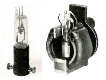 Split-anode magnetron tube, an obsolete microwave vacuum tube invented by Albert Hull at General Electric in 1920. One of the first oscillators that could produce frequencies in the gigahertz range, it was used until the modern cavity magnetron was invented in 1940. This tube, used in 1935 in early German experiments in radar was manufactured by AEG/Telefunken and could generate 10 centimeter (3 GHz) microwaves. The image on the left shows the bare tube, about 11 cm tall; on the right shows the tube mounted for use between the poles of a strong permanent magnet. Alterations to image: combined two separate images